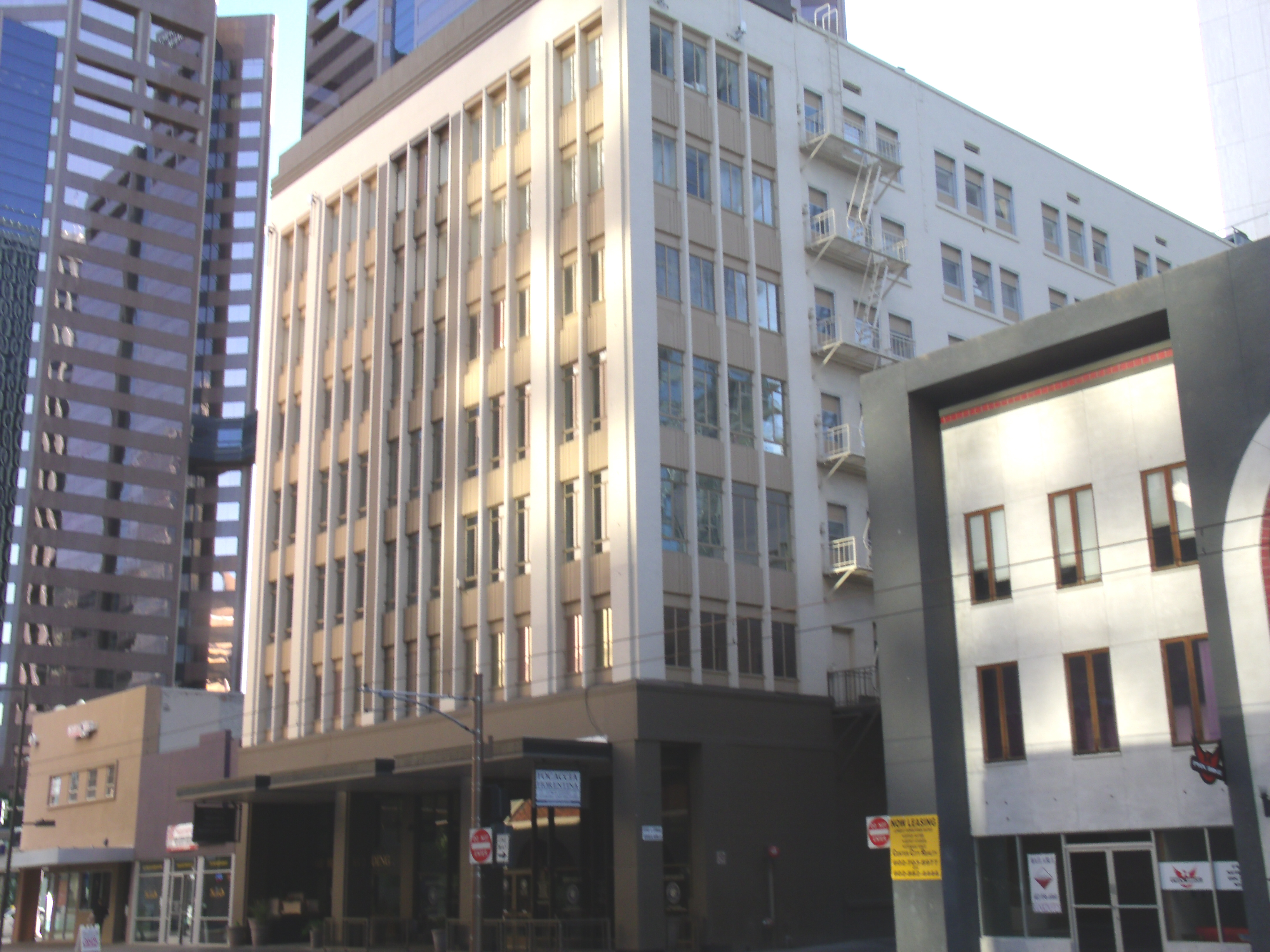 The Historic (NRHP) Heard Building, built in 1920, was Phoenix's first skyscraper. The building was featured in Alfred Hitchcocks 1960 film "Psycho"